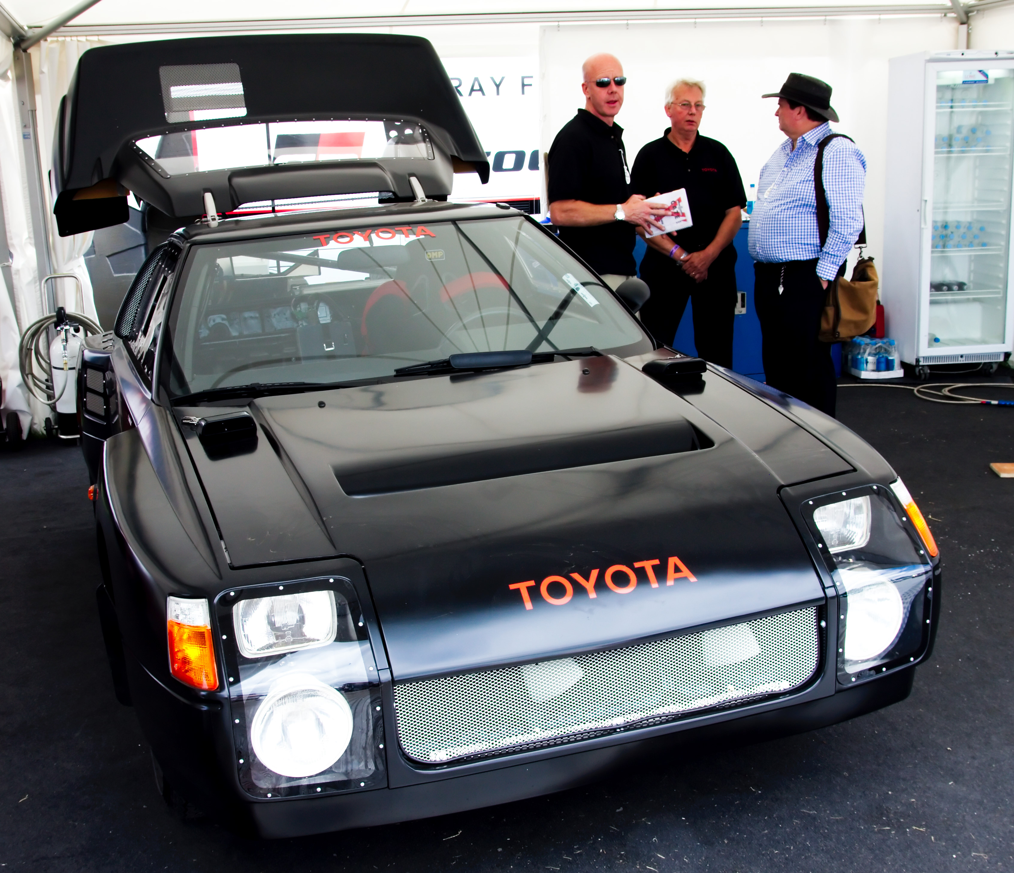 Toyota WRC Group S 222D MR2 Prototype